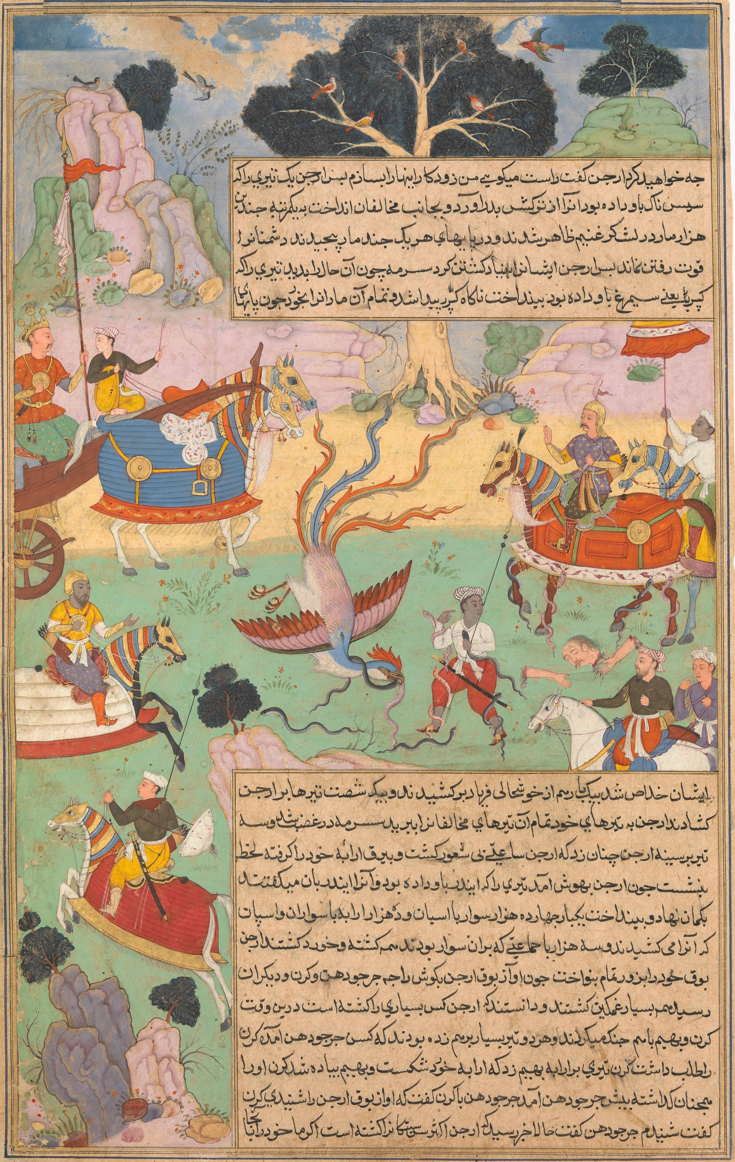 "Fighting Arjuna, Susarma Unleashes the Suparna Weapon which Invokes Garuda", Folio from a Razmnama